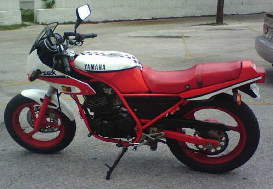 Jenny Miller's 1989 Yamaha SRX 250